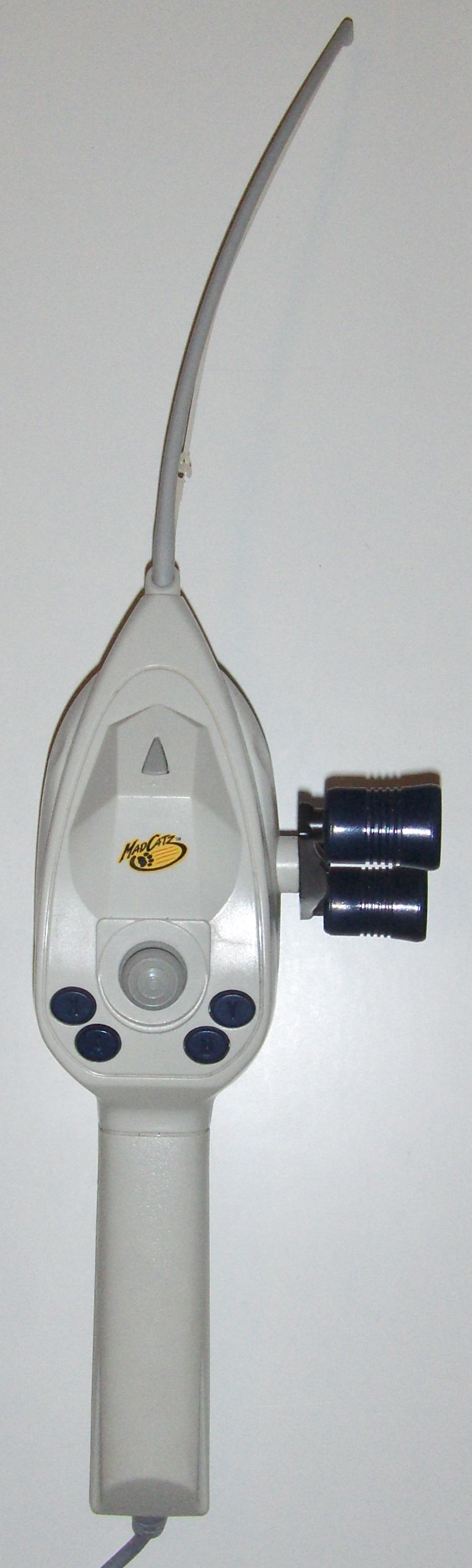 Dreamcast fishing controller made by Mad Catz.